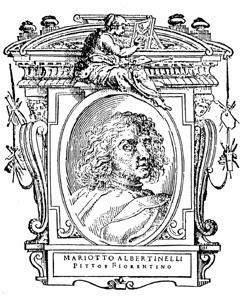 Illustratio from "Le Vite" by Giorgio Vasari, edition of 1568. For the artist portrayed see filename